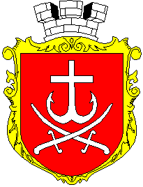 Coat of arms Vinnytsia Ukraine (Small)